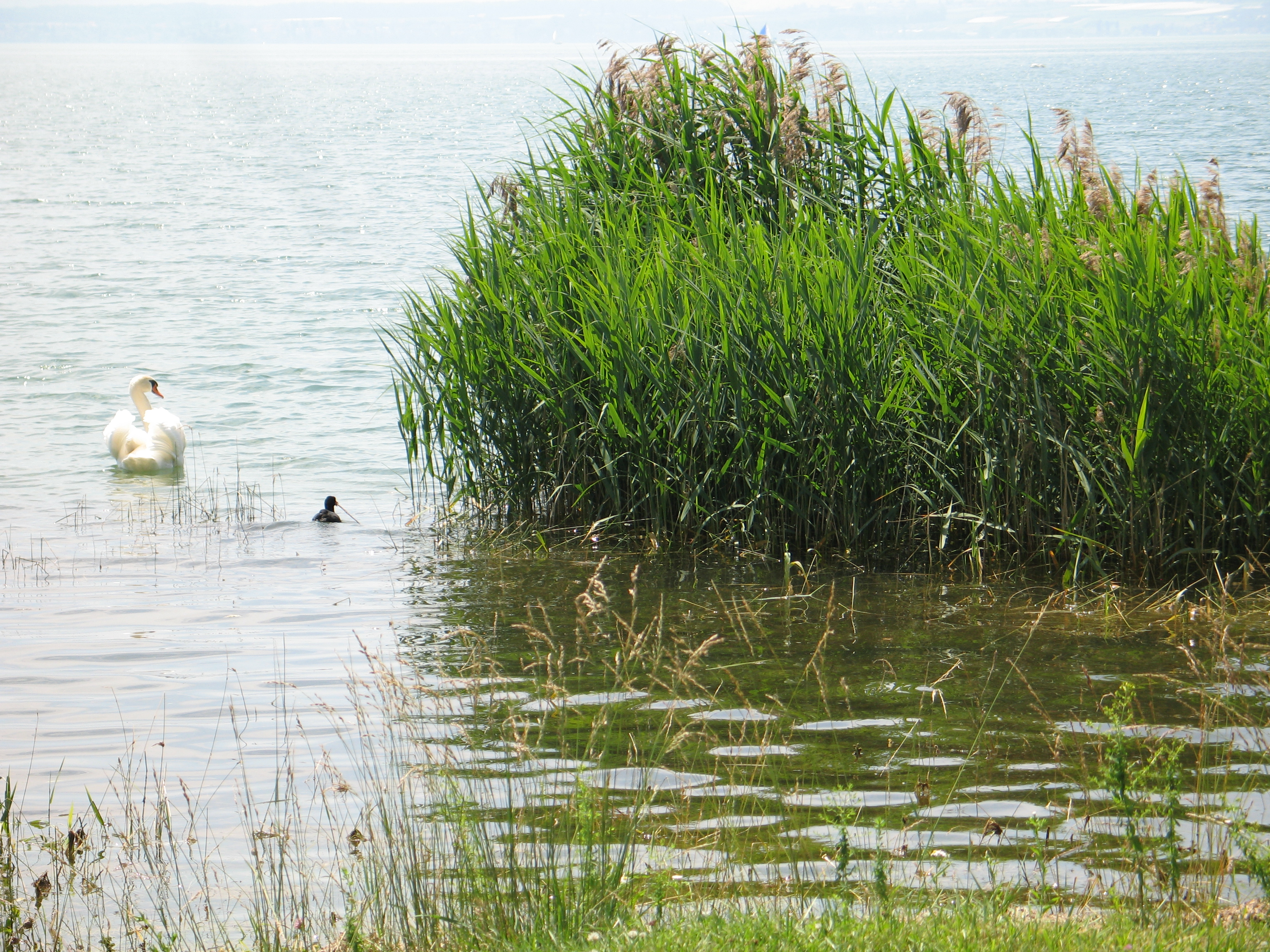 Immenstaad, biotope at Lake Constance. Near the canebrake a wondering swan: common moorhen during the construction of its nest immediately in front of guests of an inn